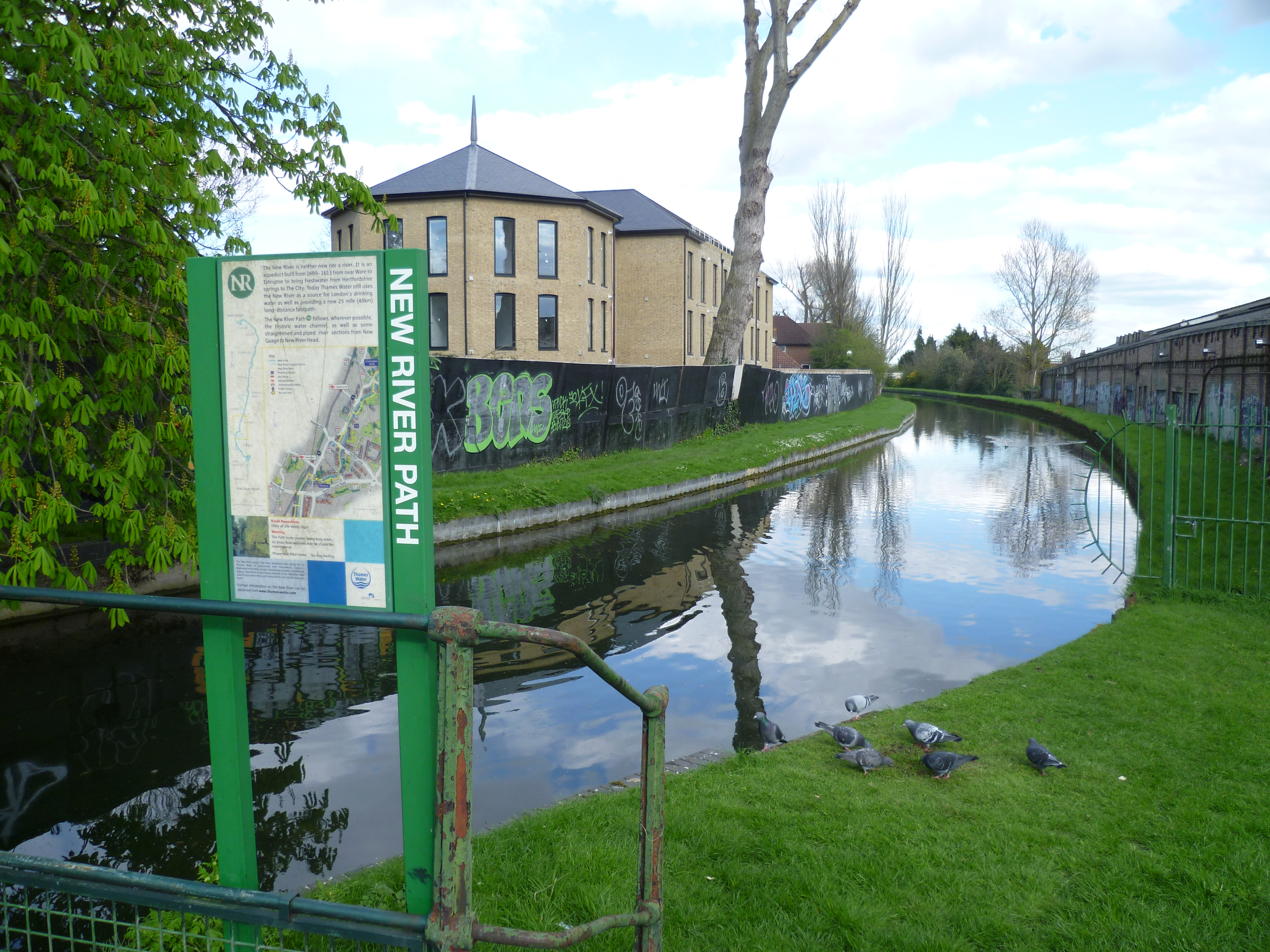 The New River